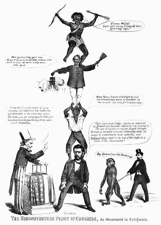 A political cartoon mocking California Republican politician George Congdon Gorham (running for governor at the time) for his views on suffrage for non-whites. LOC description: A satire aimed at California Republican gubernatorial nominee George C. Gorham's espousal of voting rights for blacks and other minorities. Brother Jonathan (left) admonishes Gorham, "Young Man! read the history of your Country, and learn that this ballot box was dedicated to the white race alone. The load you are carrying will sink you in perdition, where you belong, or my name is not Jonathan." He holds his hand protectively over a glass ballot box, which sits on a pedestal before him. At center stands Gorham, whose shoulders support, one atop the other, a black man, a Chinese man, and an Indian warrior. The black man complains to Gorham, ". . . I spose we'se obliged to carry dese brudders, Kase des'se no stinkshun ob race or culler any more, for Kingdom cum." Gorham replies, "Shut your mouth Cuffy--you're as indiscreet as Bidwell [another gubernatorial nominee] and Dwinelle--here's the way I express it--The war of opinion is not yet fought through. It must go on until national citizenship shall no longer be controlled by local authority, and "Manhood alone" shall be the test of the right to a voice in the Government.'"Chinese man: "Boss Gollam belly good man. He say chinaman vo-tee all same melican man--Ketch--ee mine all same--no pay taxee--belly good." Indian: "Chemue Walla! Ingen vote! plenty whisky all time--Gorom big ingin." At right a man in a top hat, holding a monkey on a leash, calls out mockingly, "Say, Gorham! put this Brother up."